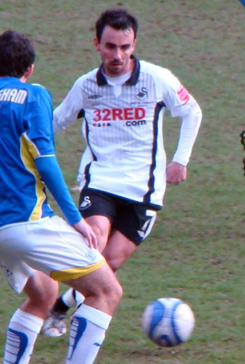 03/04/10 Cardiff V Swansea, Chamionship, Cardiff City Stadium, Cardiff, Wales